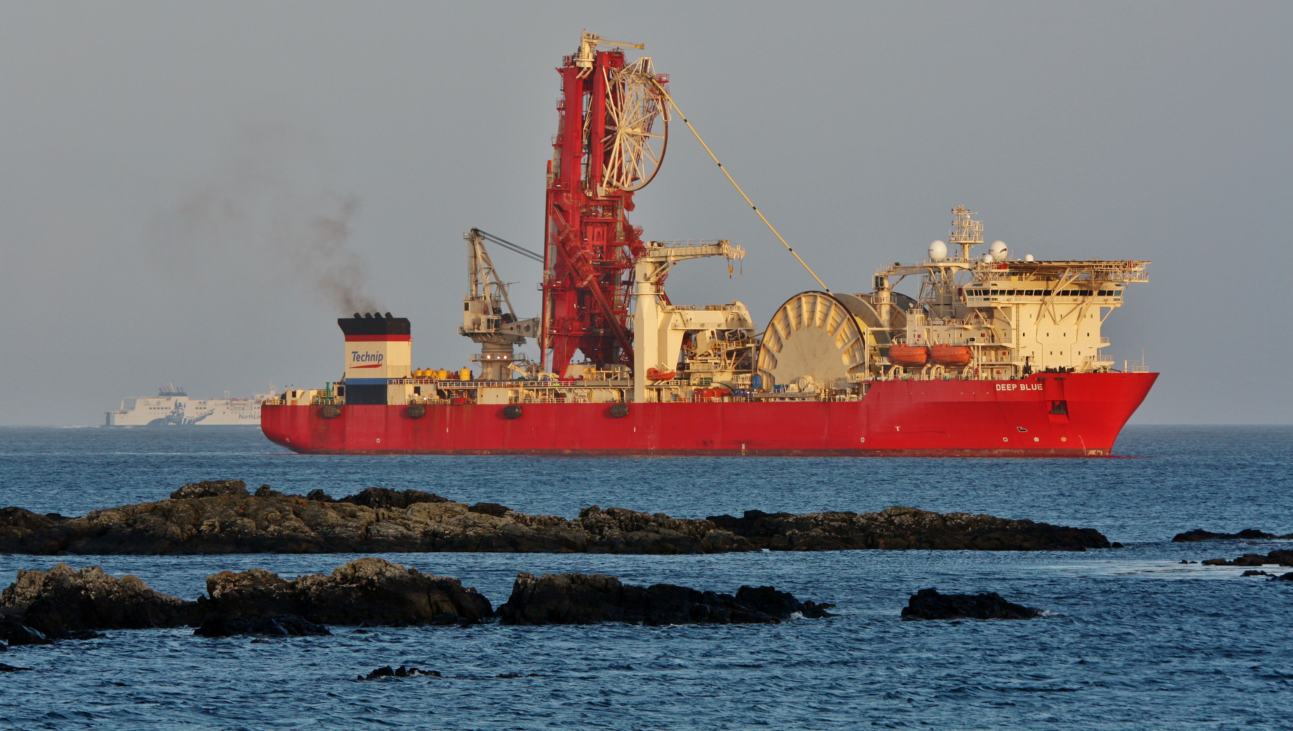 Moored off Cunningsburgh